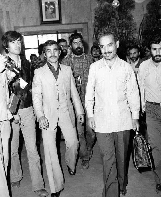 Prime Minister Mohammad-Ali Rajai enters his office with his smiley face while surrounded by correspondents